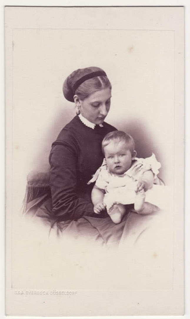 Antónia, Princess of Hohenzollern with youngest child Karl Anton